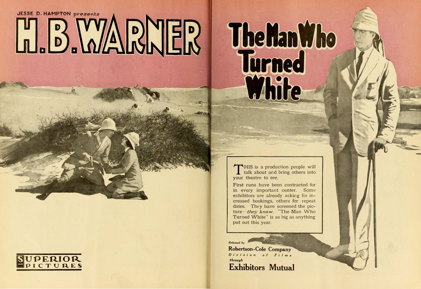 Advertisement for the American drama film The Man Who Turned White (1919) with H.B. Warner, The Moving Picture World.